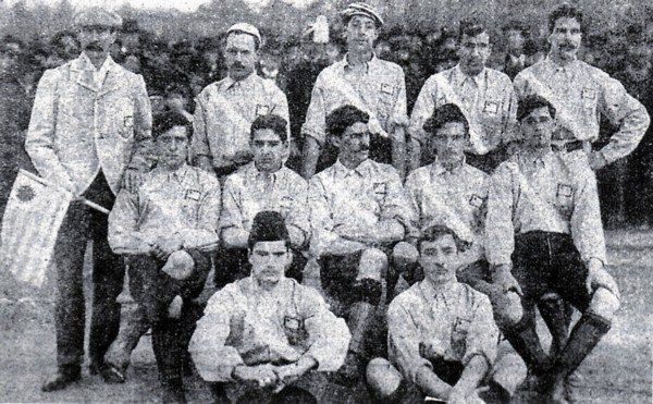 Uruguay national football team on July 20, 1902 before its first official match vs. Argentina. From left to right, back: Linier, Miguel Nebel, Luis Carbone, Alberto Peixoto, Enrique Sardeson; middle: Bolívar Céspedes, Gonzalo Rincón, Juan Sardeson, Ernesto Reyes, Carlos Céspedes; front: Carlos Urioste, Germán Arímalo.